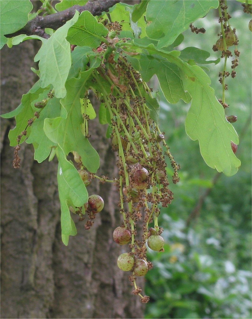 Quercus robur oakgalls on male flowers